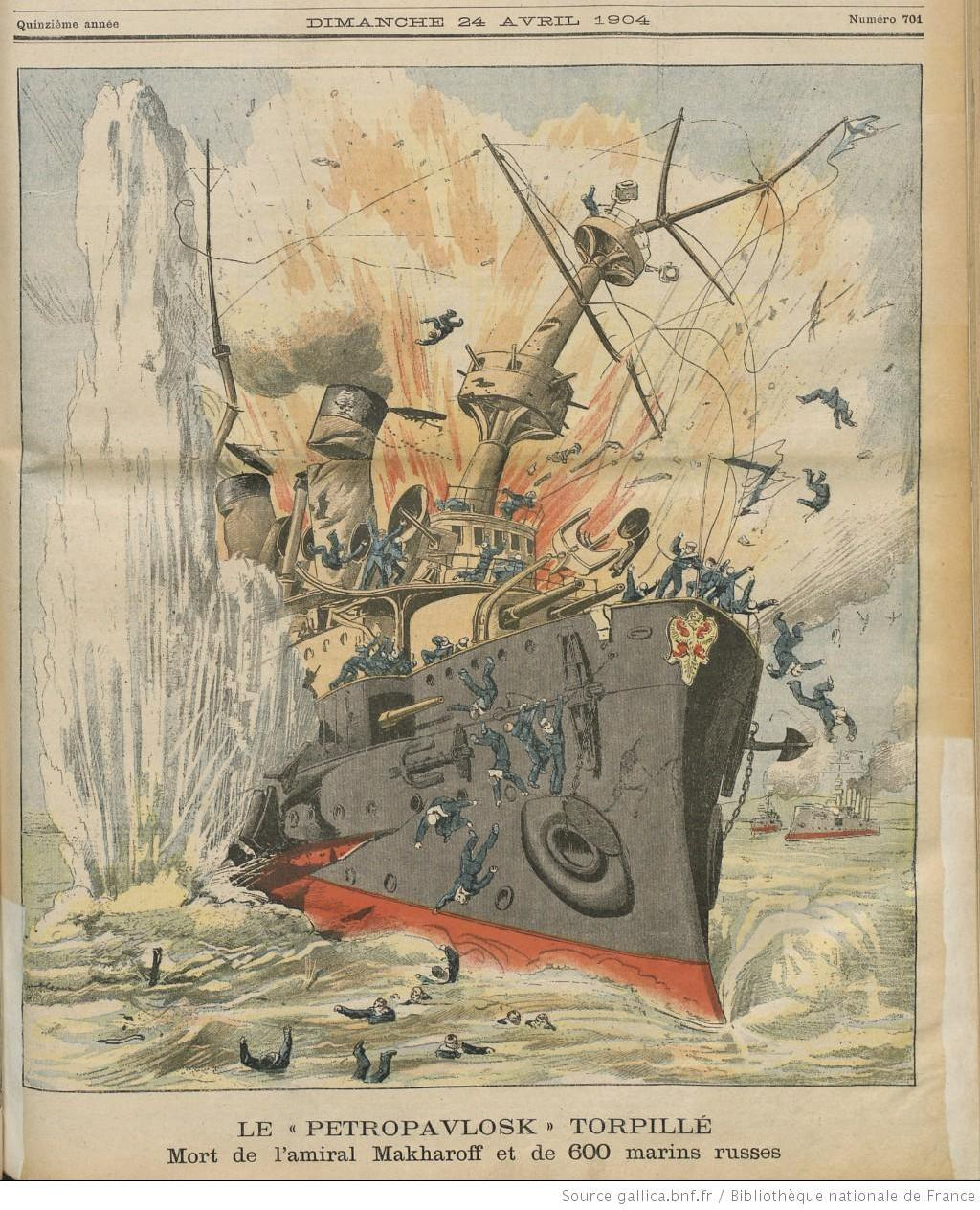 Artist's rendering of the destruction of the Russian battleship Petropavlovsk in 1904. Image appeared as the cover of the French illustrated weekly, Le Petit Journal.